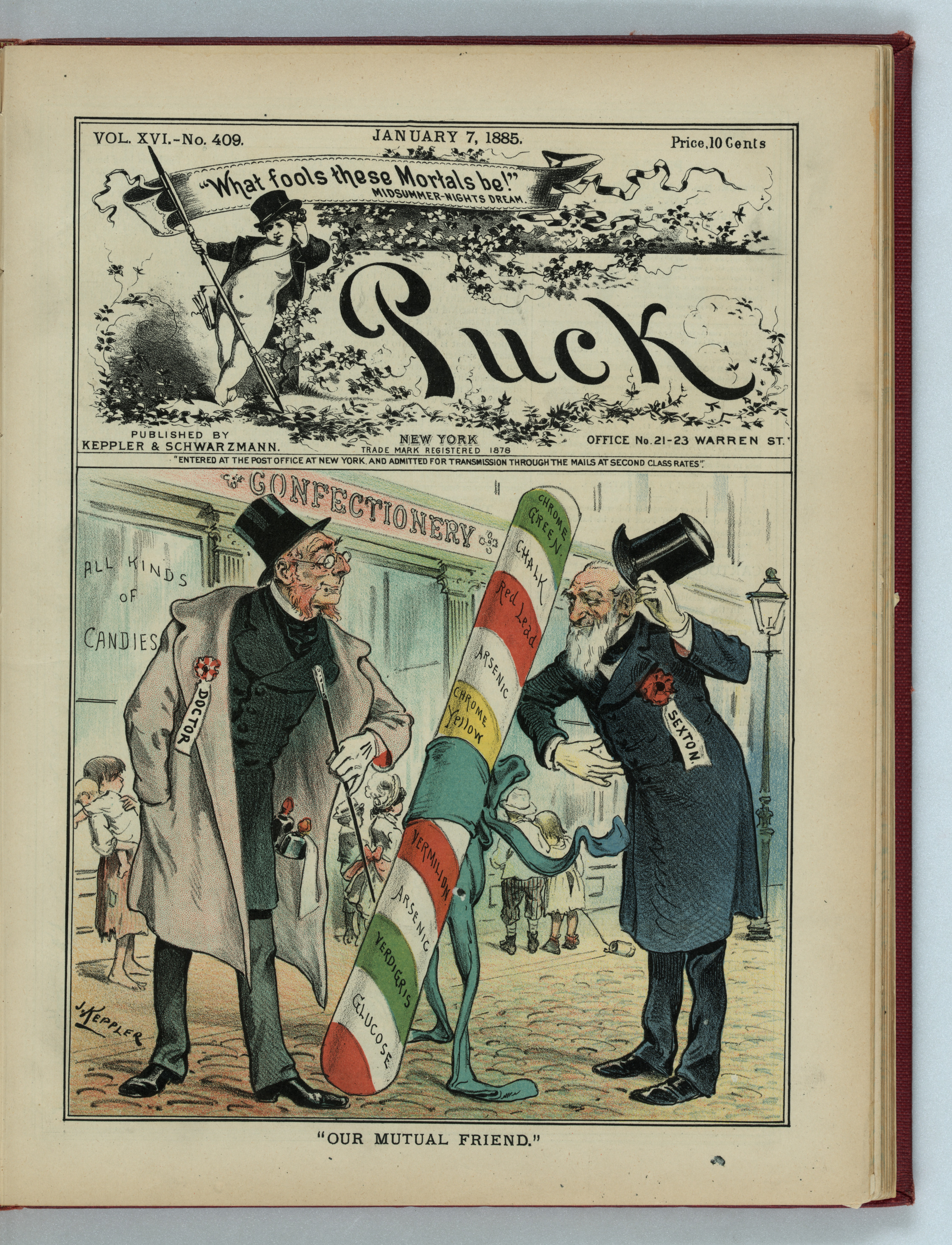 Title: "Our mutual friend" Abstract: Illustration shows a man labeled "Doctor" and a man labeled "Sexton" standing in the street outside a "Confectionery", with a large colorful candy stick between them, it is labeled "Chrome Green, Chalk, Red Lead, Arsenic, Chrome Yellow, Vermillion, Verdigris, [and] Glucose". Physical description: 1 print : chromolithograph. Notes: J. Keppler.; Illus. from Puck, v. 16, no. 409, (1885 January 7), cover.; Copyright 1885 by Keppler & Schwarzmann.; Title from item.